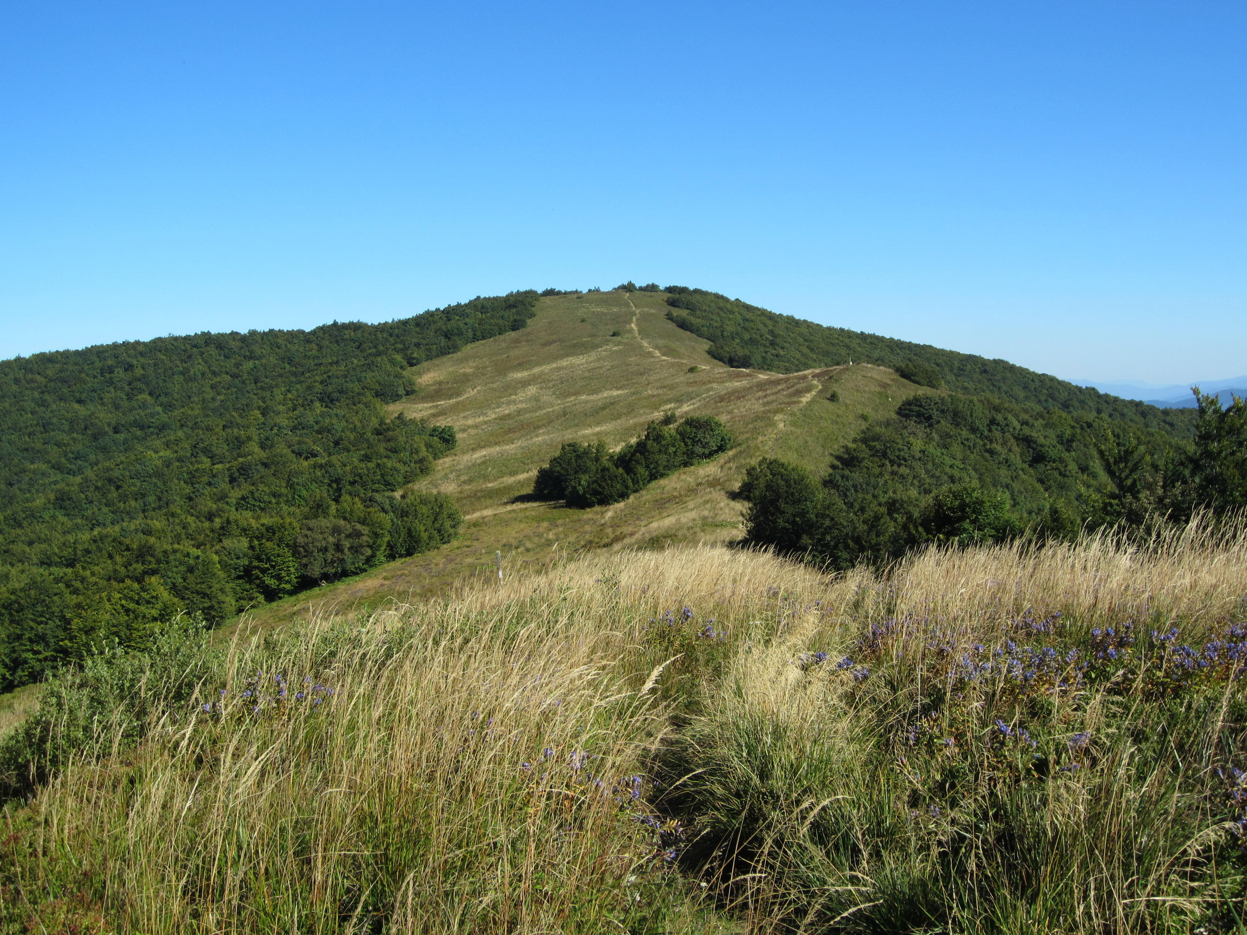 Ďurkovec in August This is a photography of Natura 2000 protected area with ID SKUEV0229 This is a photography of Natura 2000 protected area with ID SKCHVU002 This is a photography of Natura 2000 protected area with ID PLC180001